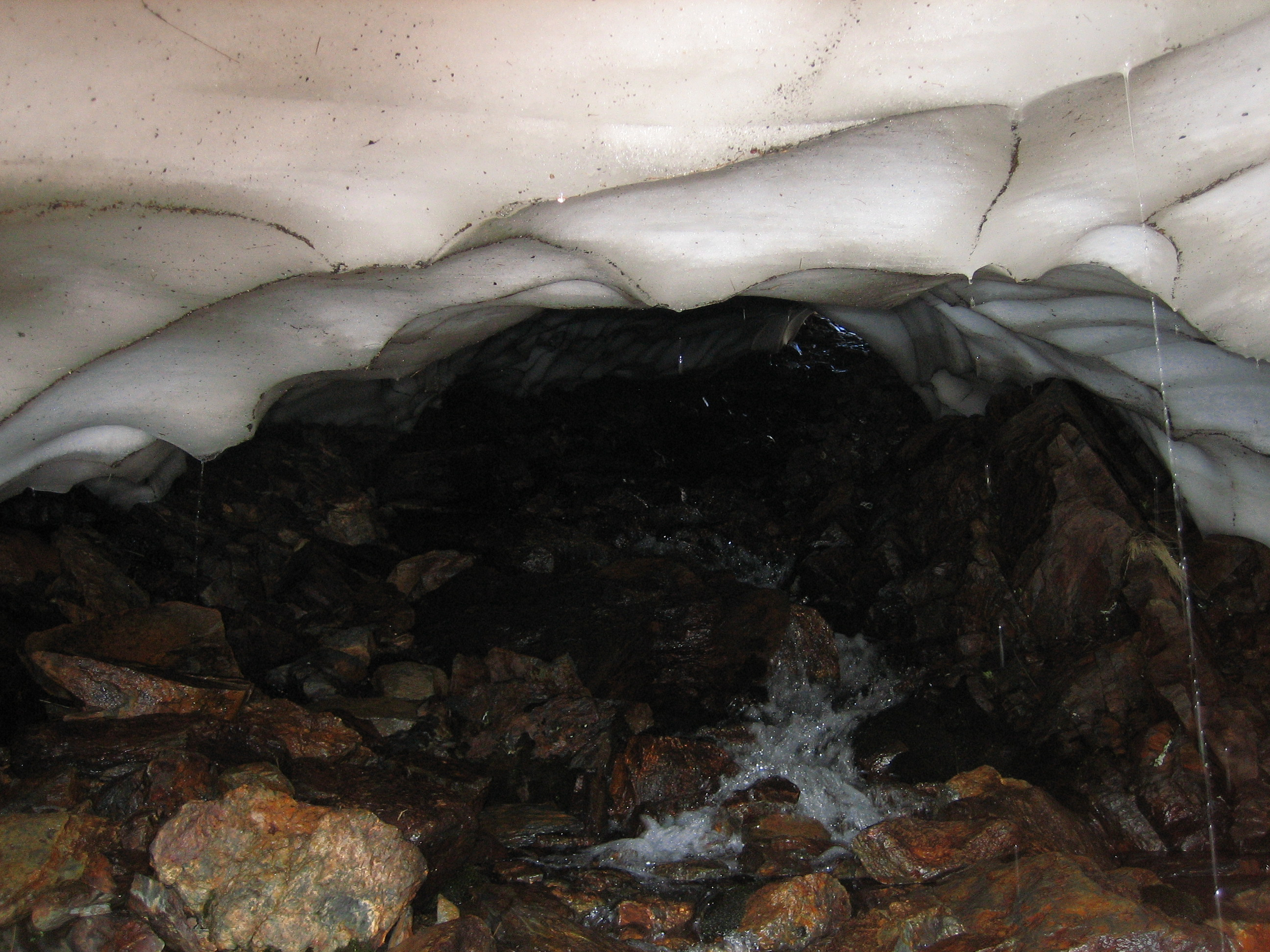 Riu de l'Estany Negre covered with snow (section between Estany Negre and Basses de l'Estany Negre lakes), Arinsal, La Massana, Andorra